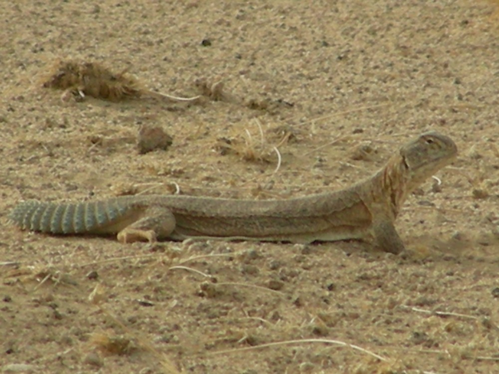 Spiny-tailed Lizard, Uromastyx hardwickii, Family Agamidae(Sauria). Photographed by Aashay Baindur on 05 Jun 2006 in Thar desert, Jaisalmer district, Rajasthan, India. Self-work. Nature Loader 16:47, 6 June 2006 (UTC)